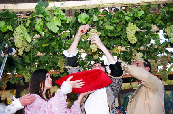 Свечено откинување на првиот грозд